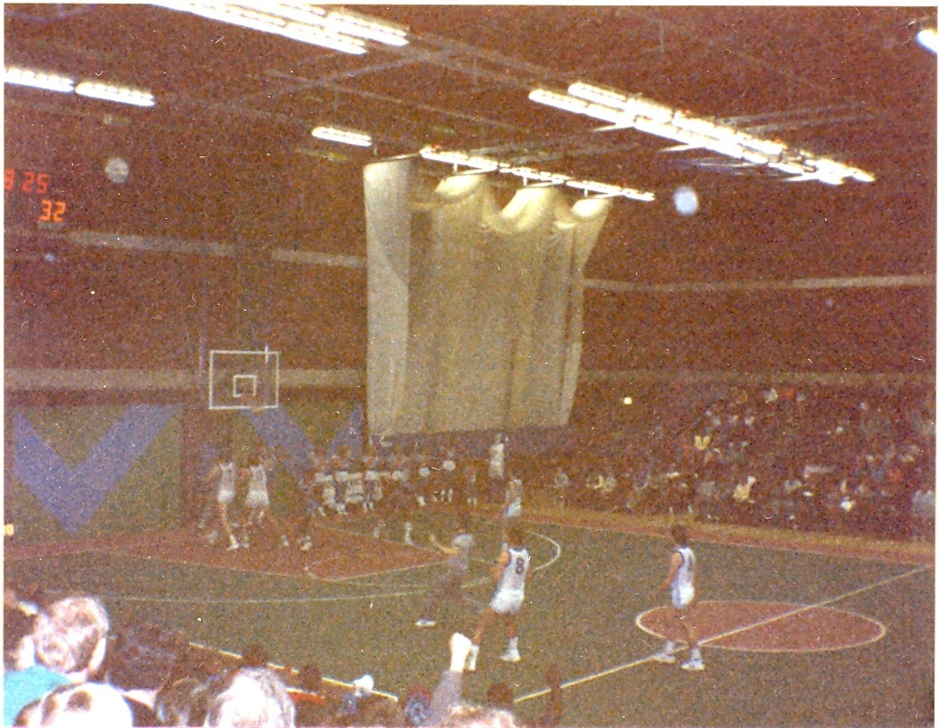 Portsmouth FC Basketball Club (in blue) versus Crystal Palace in the British Masters quarter-final 2nd leg at the Mountbatten Centre in Portsmouth on March 26th 1986, the last game played on Portsmouth's carpet court.